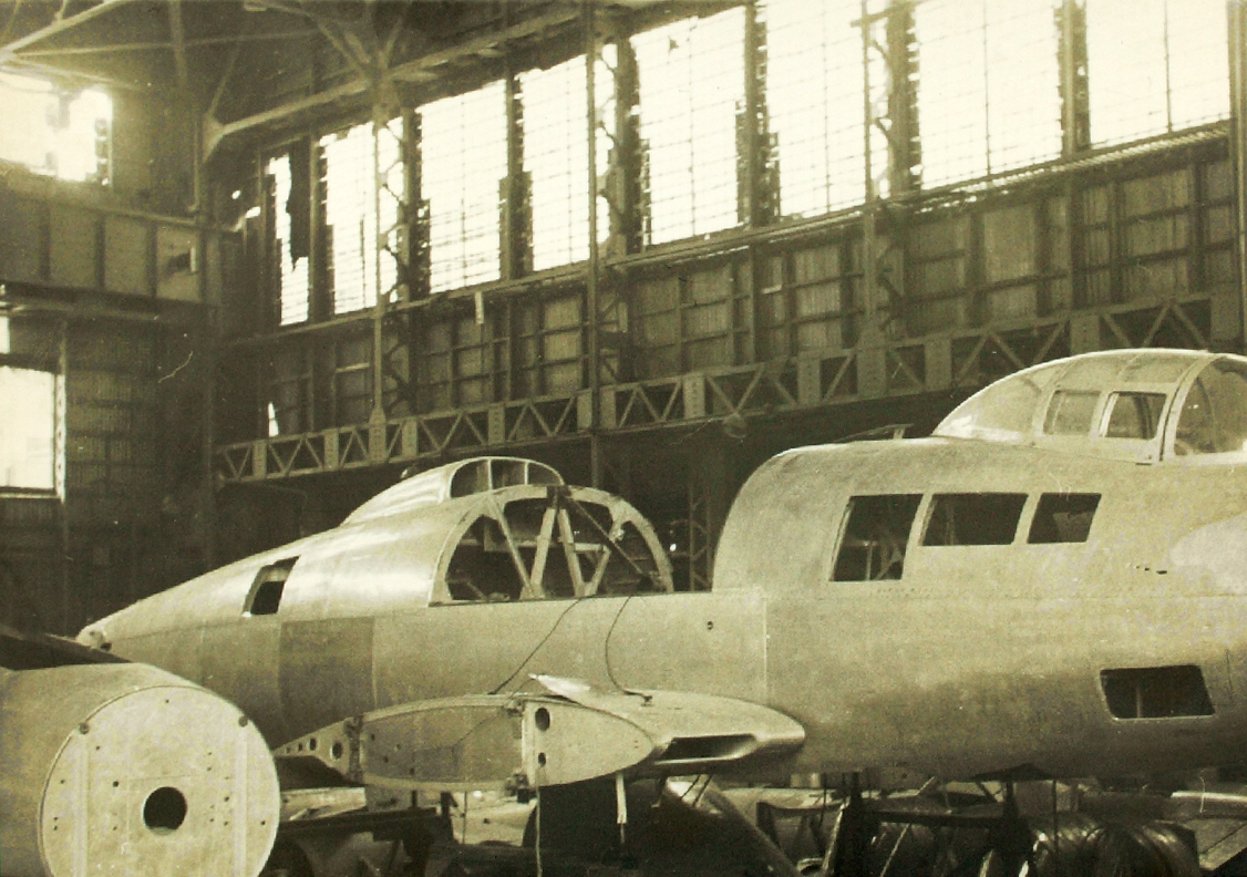 Yokosuka R2Y Keiun in assembly plant